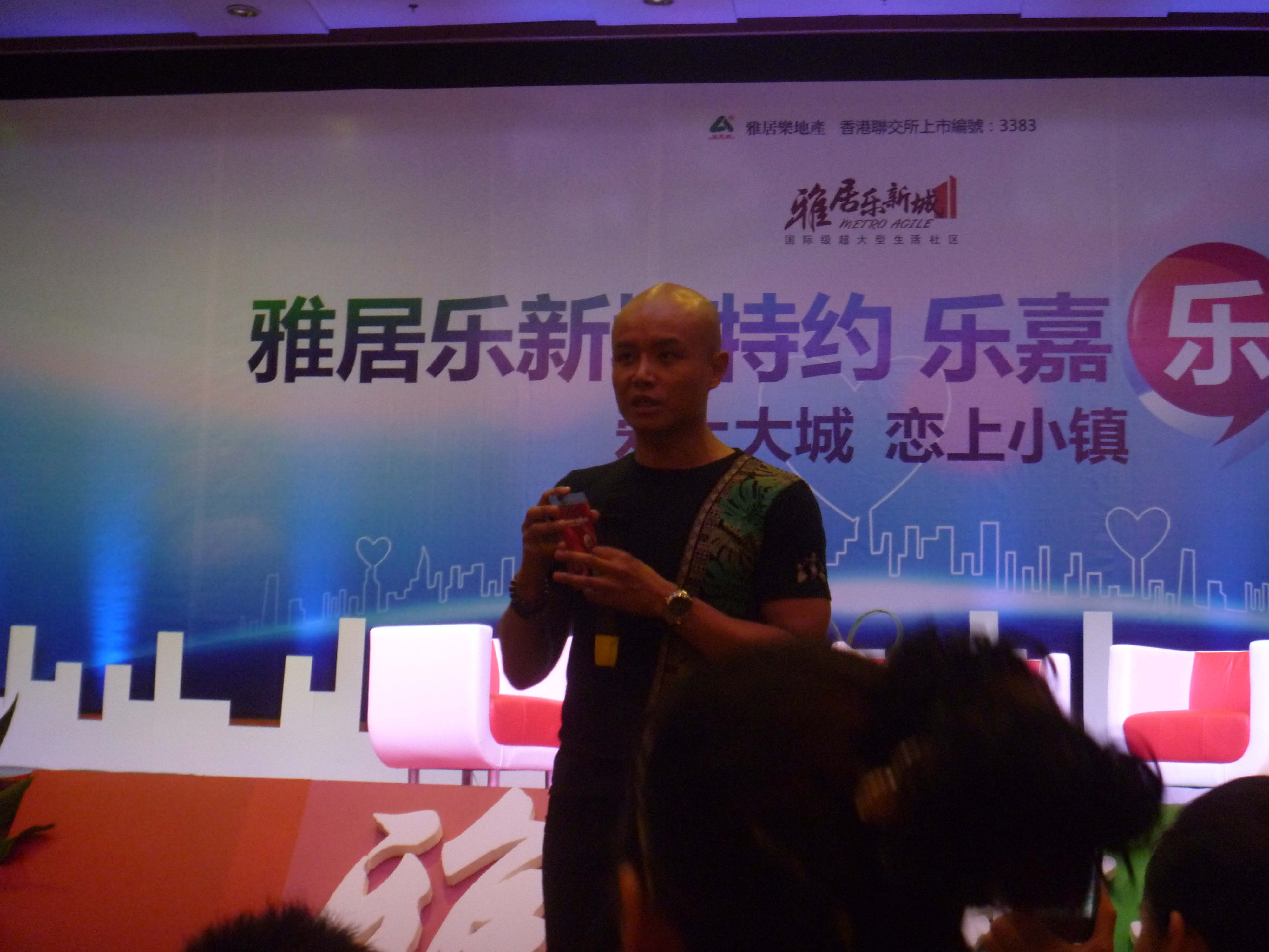 Le Jia in Zhuhai